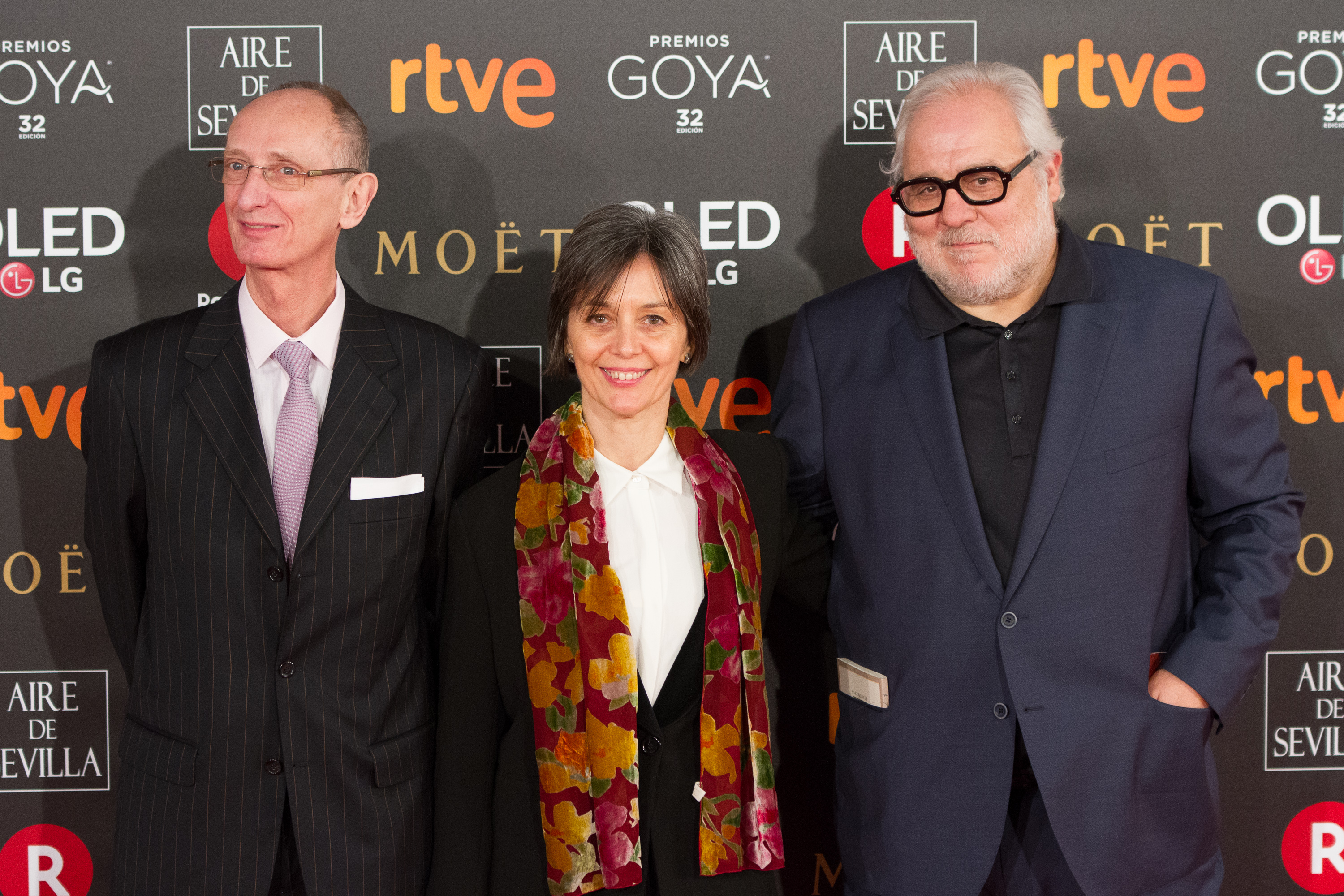 32nd Goya Awards, 2018.